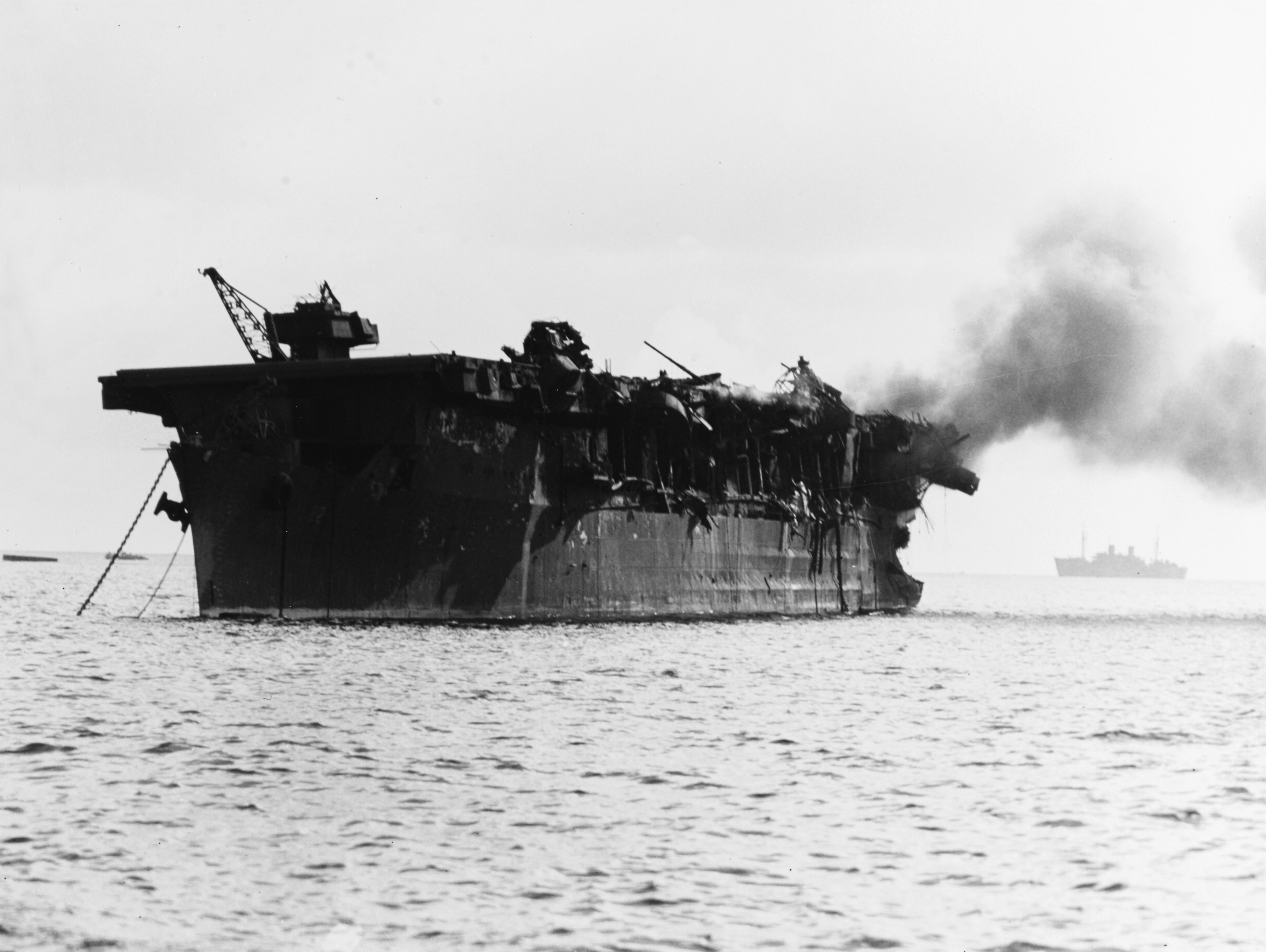 The U.S. Navy light aircraft carrier USS Independence (CVL-22) afire aft, soon after the atomic bomb air burst test "Able" at Bikini on 1 July 1946. The bomb had exploded off the ship's port quarter, causing massive blast damage in that area, and progressively less further forward. The carrier did not sink during the tests and was finally sunk as a target off San Francisco, California (USA), on 27 January 1951.